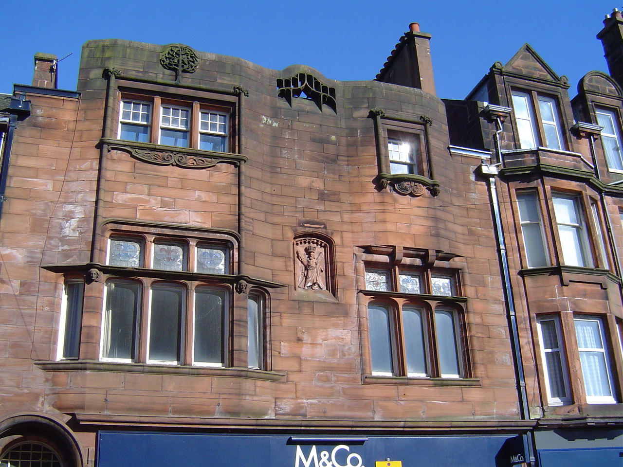 Mackintosh Club (originally the Helensburgh & Gareloch Conservative Club)